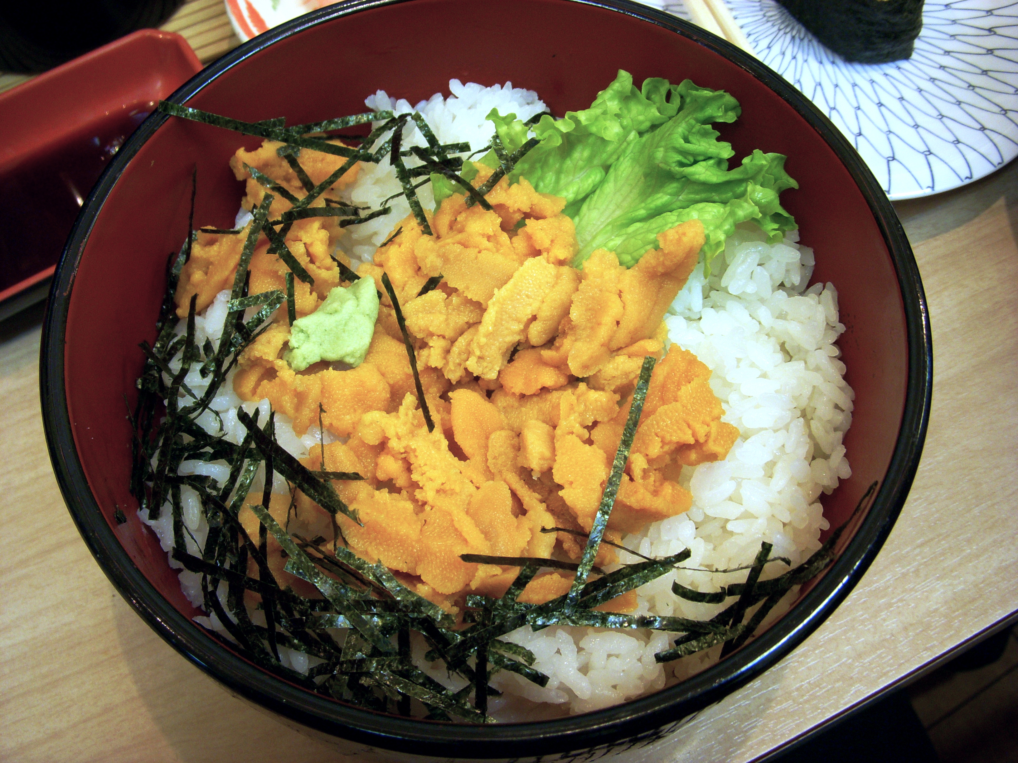 500 yen. We found this super cheap sushi place near Nishijin Station. The uni was not the best I'd tasted. But at 500 yen it is a bargain.